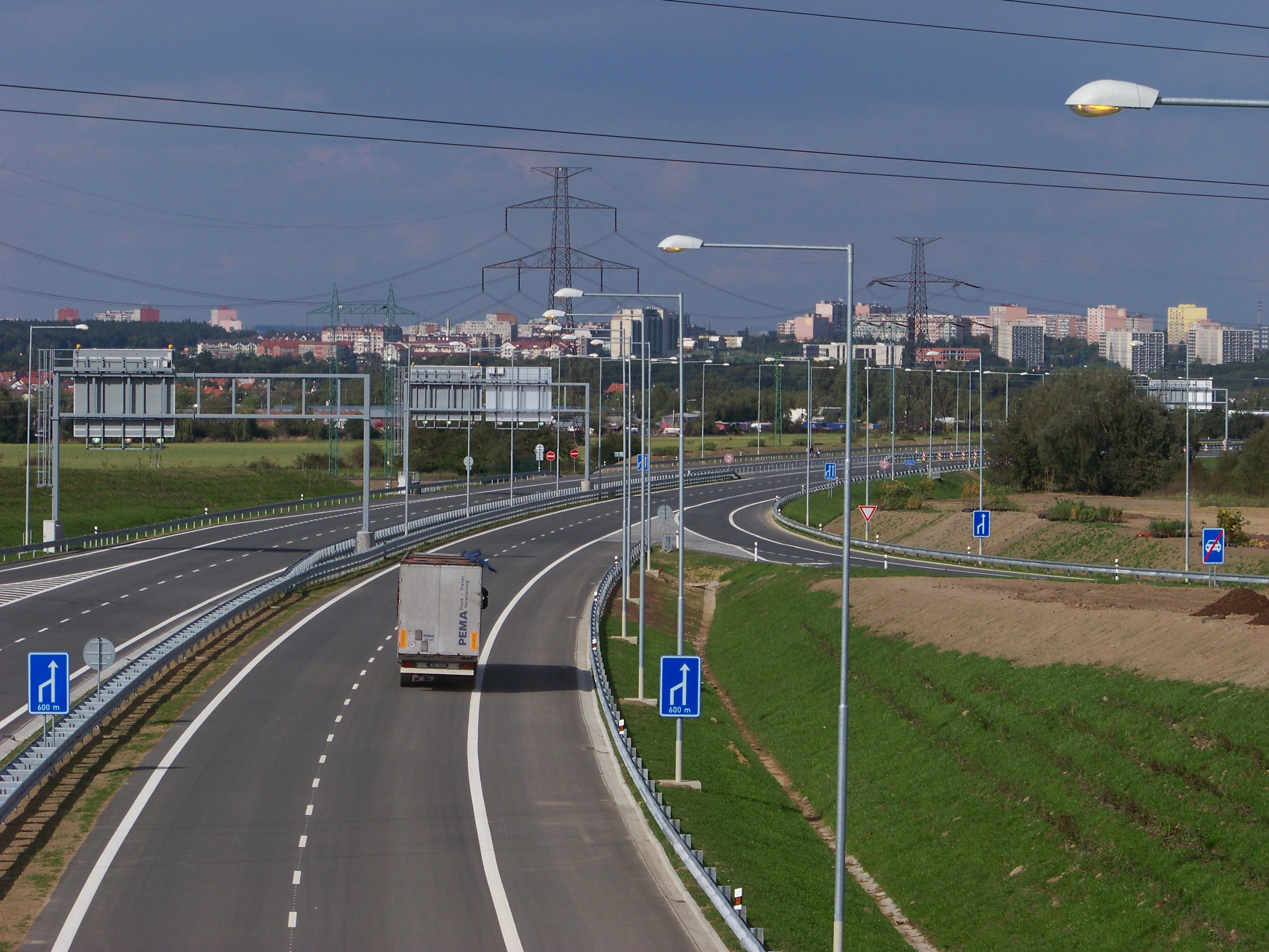 Zlatníky-Hodkovice, Prague-West District, Central Bohemian Region, the Czech Republic. Open Doors Day of the new section of Prague Beltway. Vestecká spojka near Exit 3 of Prague Beltway. On the left side 220 kV power line (V208, small pylons) and 400 kV power lines (V414/V476, large pylons).